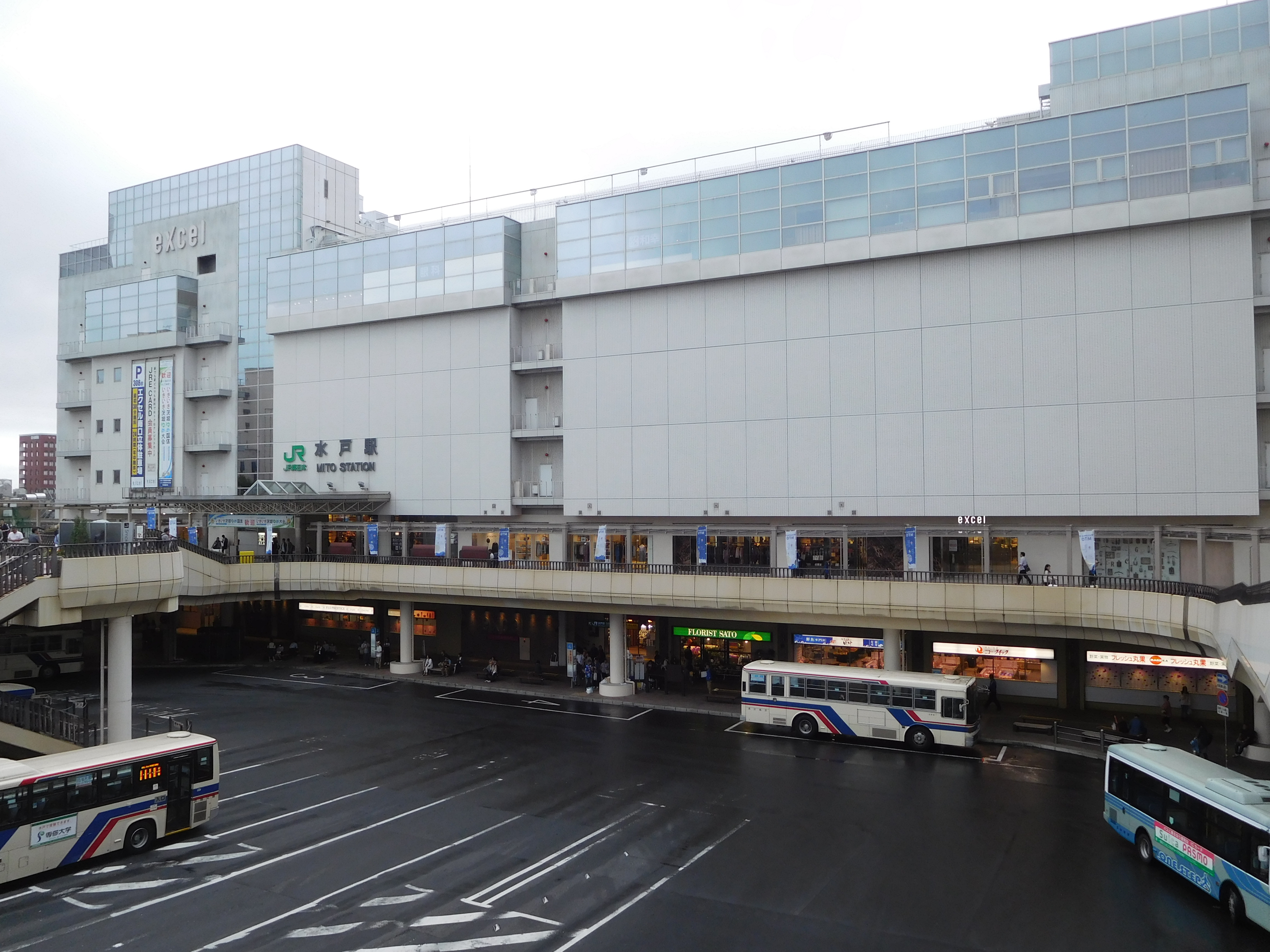 This is the north side of Mito station in Mito, Ibaraki, Japan.